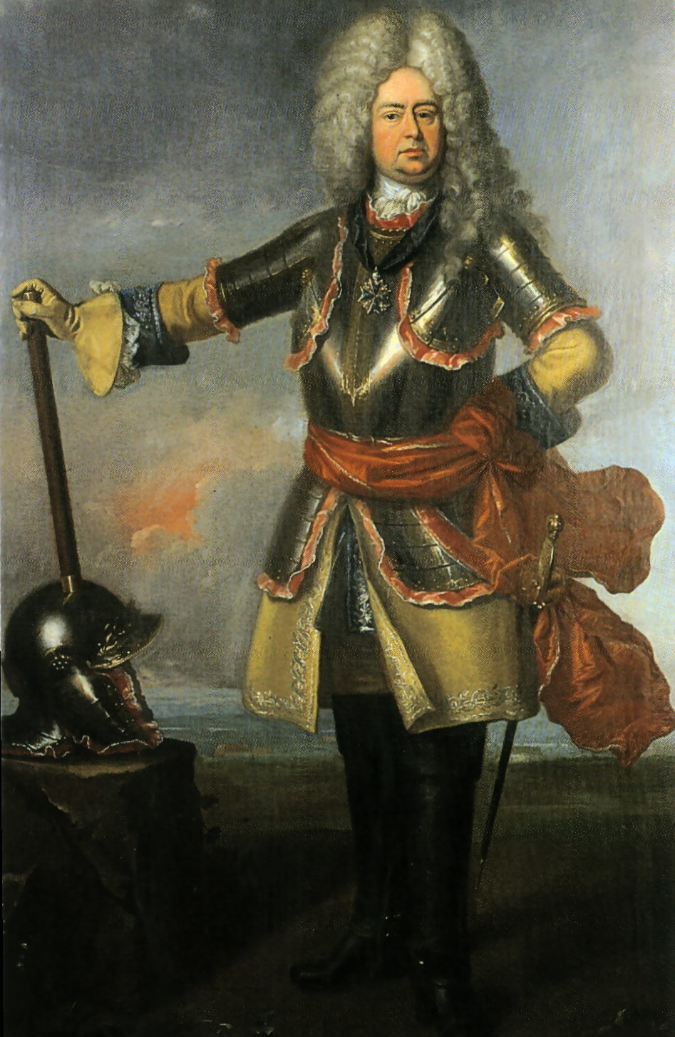 Daniel Wolff, baron van Dopff (1650-1718), painted for the Gouvernors Palace in Maastricht by Johann Valentin Tischbein (after contemporary portraits?), ca 1750. Museum collection of Schloss Fasanerie, Fulda, Germany.